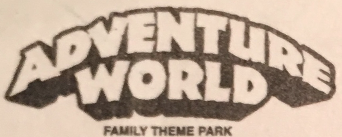 This is a photograph of the Adventure World logo from a ticket Stub.